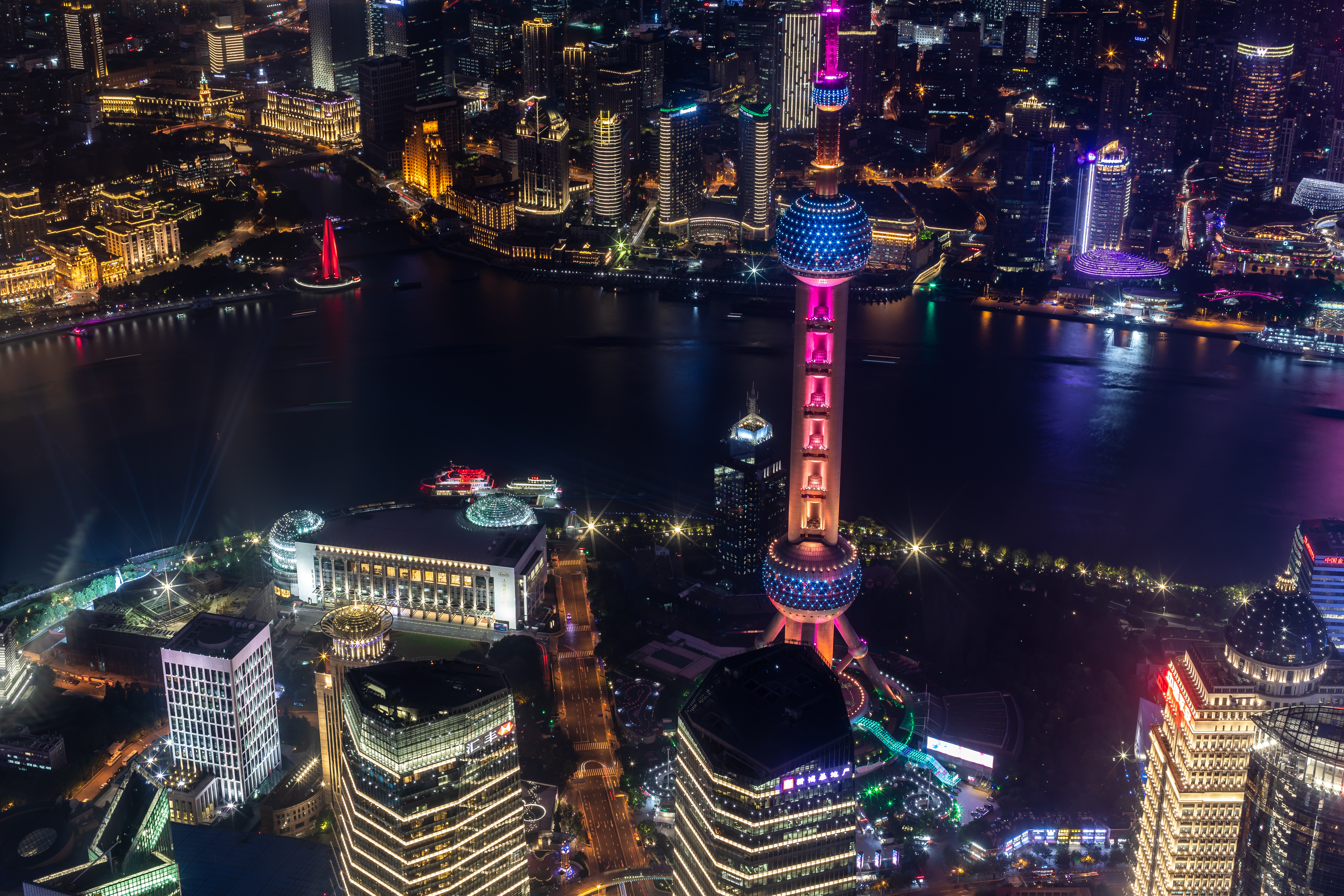 At night showing the Huangpu River snaking through the middle between the Bund and the Oriental Pearl Tower in the foreground